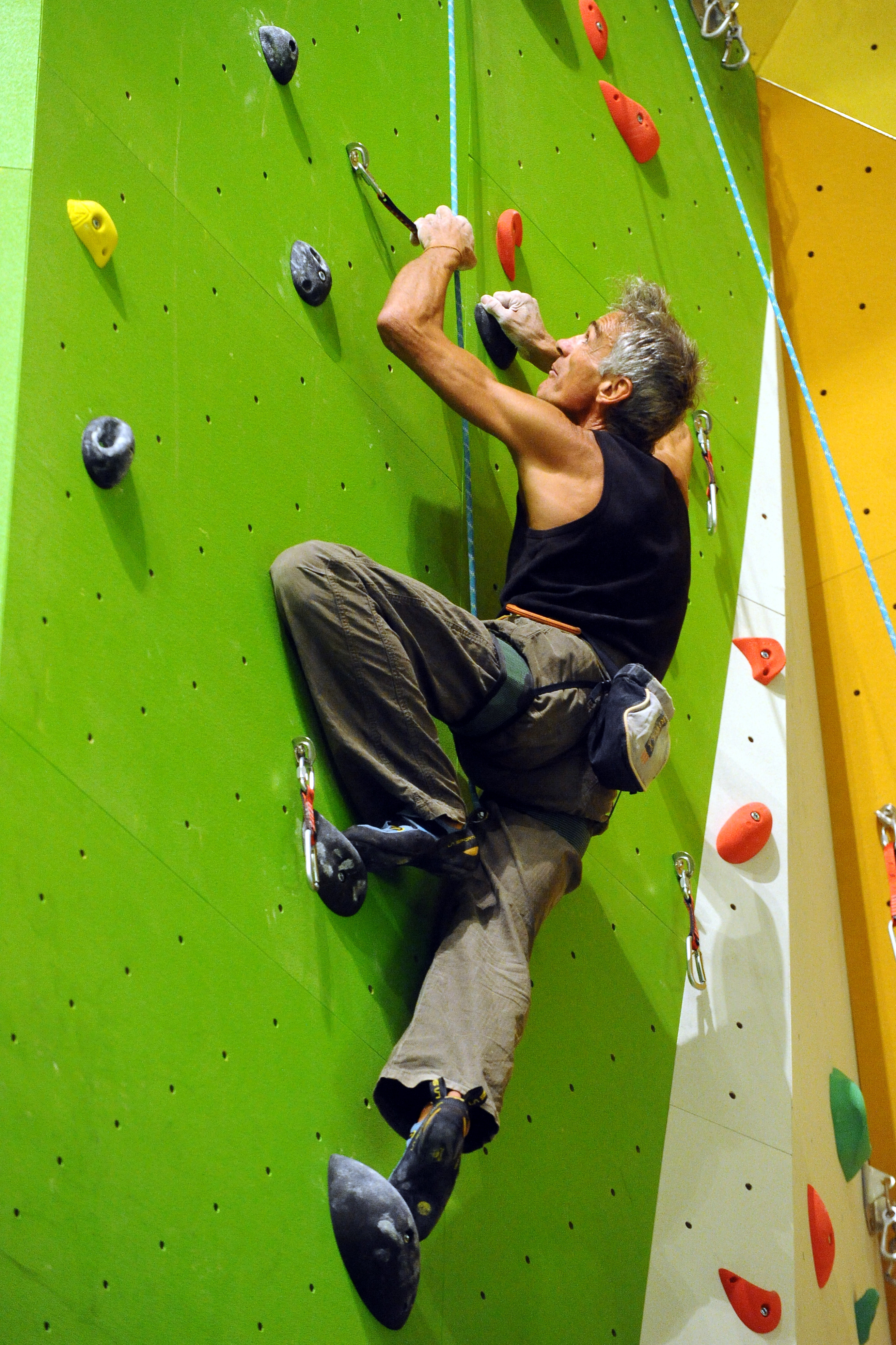 Manolo indoor climbing at Sanbàpolis, Trento.